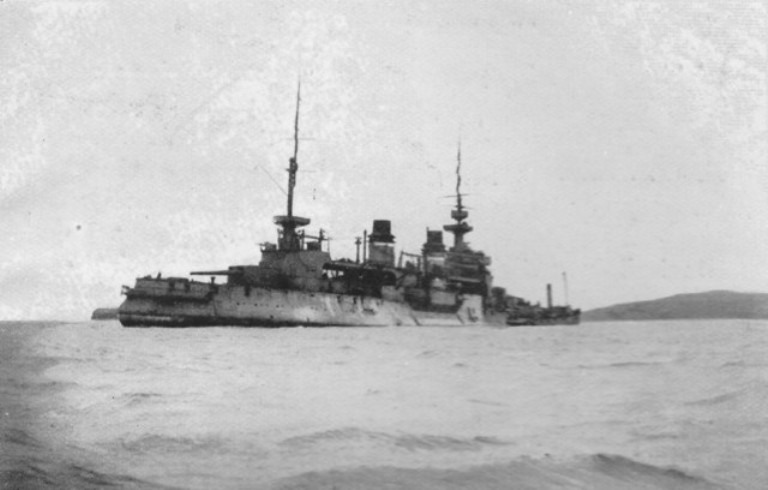 March 1915. The French battleship Gaulois running aground on the island of Drepano (called rabbits) after being damaged on the waterline by the Turkish artillery during the Battle of the Dardanelles.